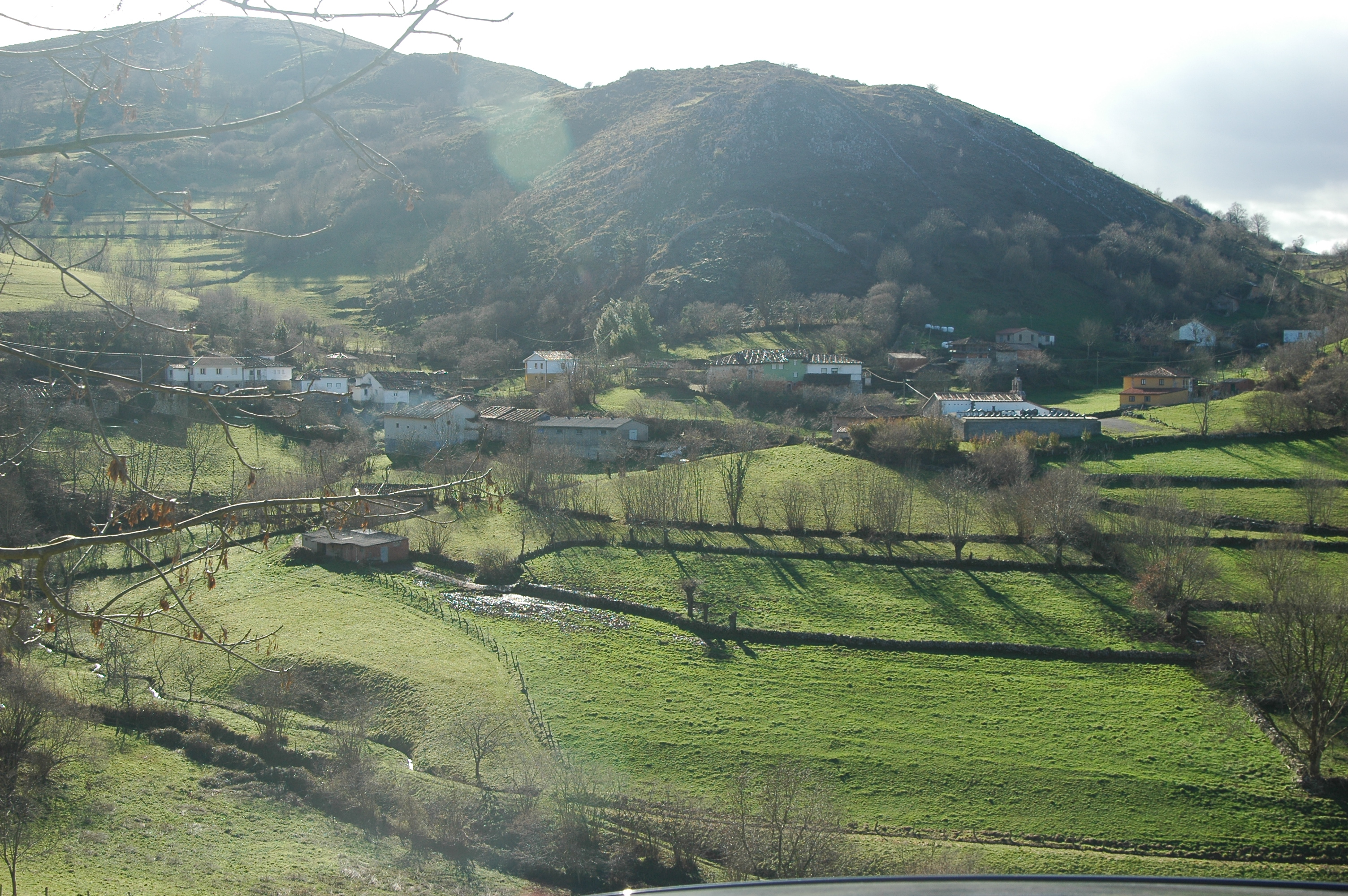 Vista del barriu d'El Valle, en Rubianu (Grau, Asturies)